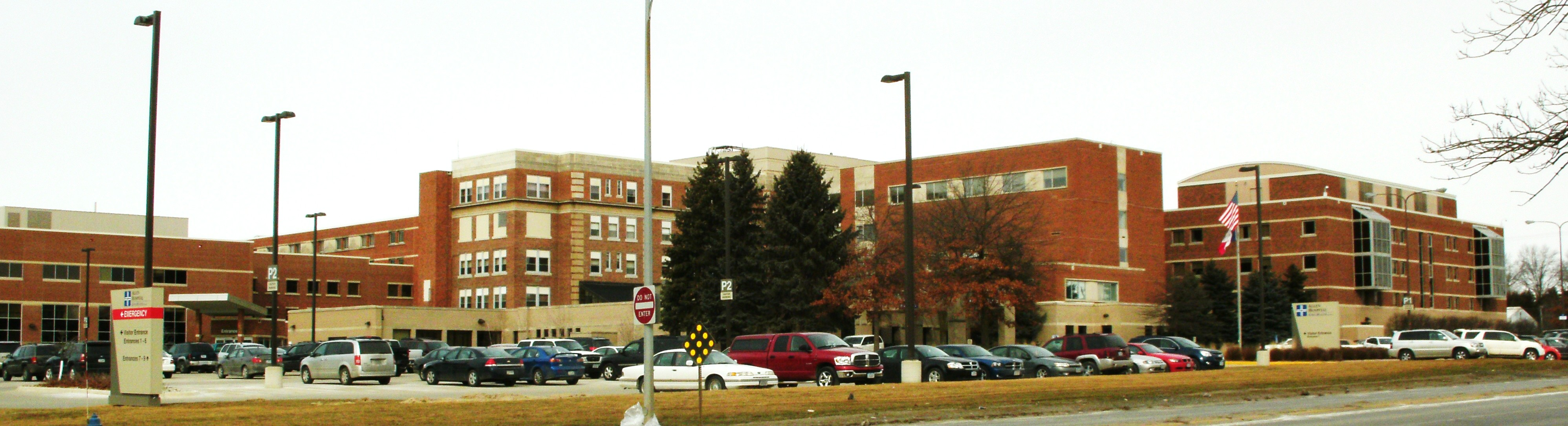 Allen Hospital located in Waterloo, Black Hawk County, Iowa